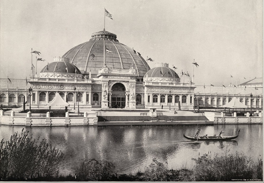 Horticultural Building, from Wooded Island. Large photographic print from The White City (As It Was), photographs by William Henry Jackson. World's Columbian Exposition 1893. Digitial Identifier: GN90799d_JWH_071w World's Columbian Exposition Collection at The Field Museum